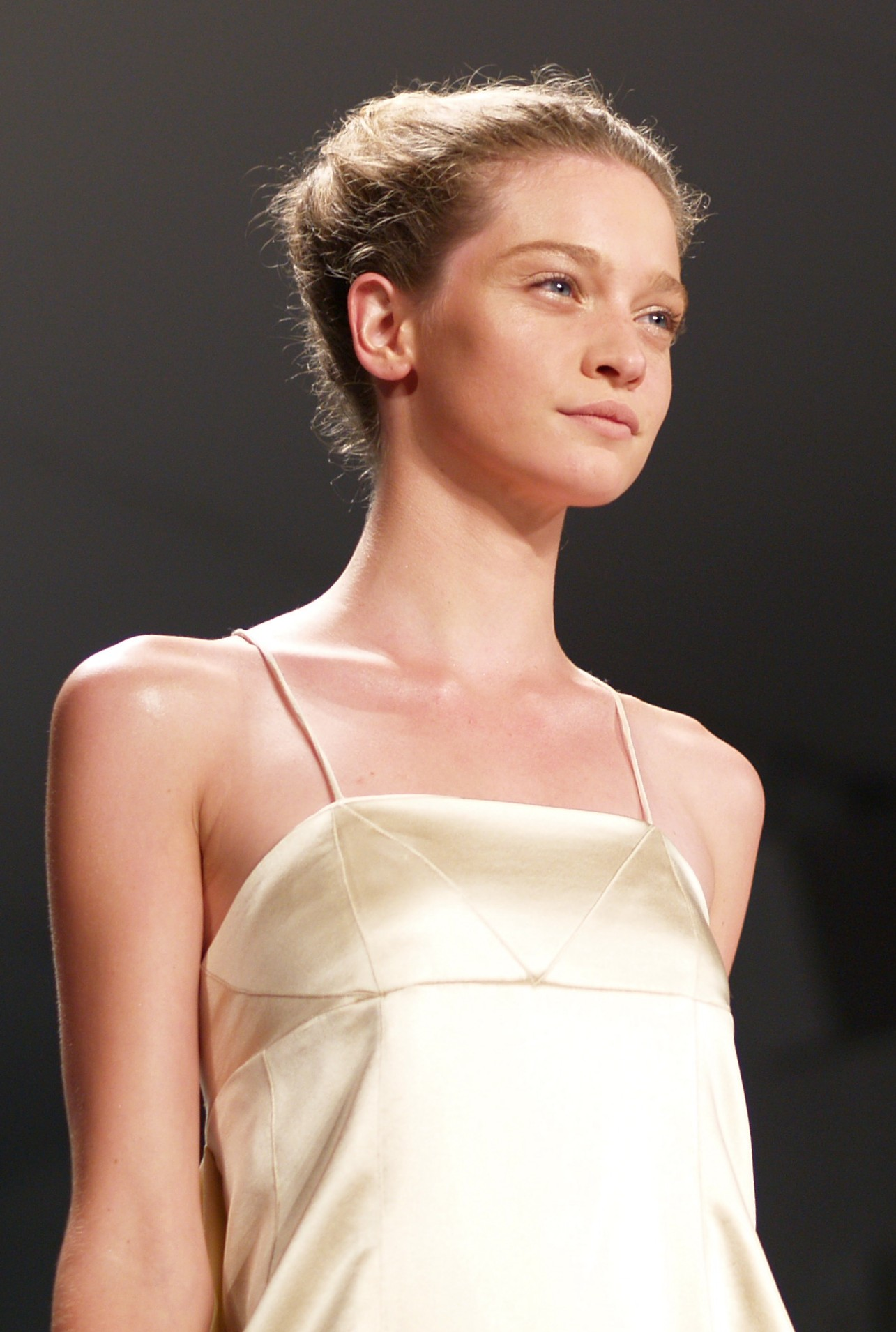 Lesly Masson modeling in Doo.Ri Spring 2007 show, New York Fashion Week